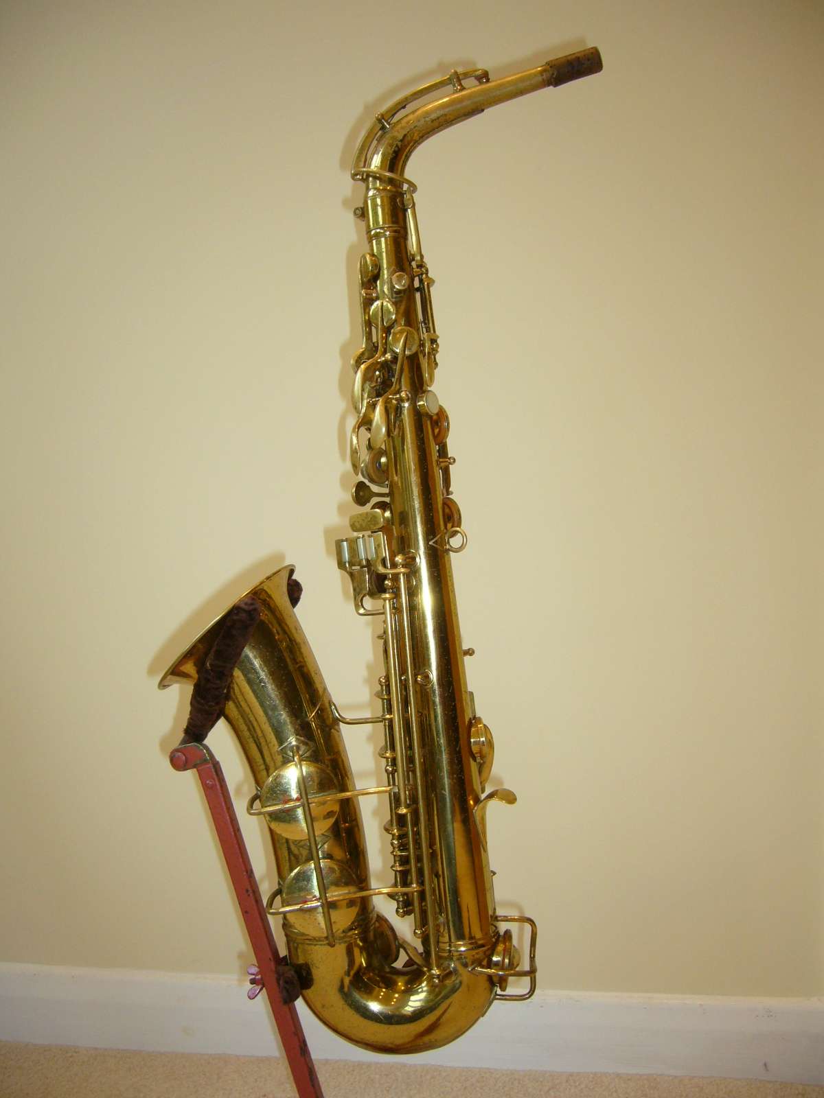 Conn "Pan American" alto saxophone. Manufactured circa 1948 by the Pan American Band Instrument Company in Elkhart, Indiana, USA. This saxophone has a similar body to a Conn 6M and keywork which is reminiscent of a Conn New Wonder Series 1 and 2